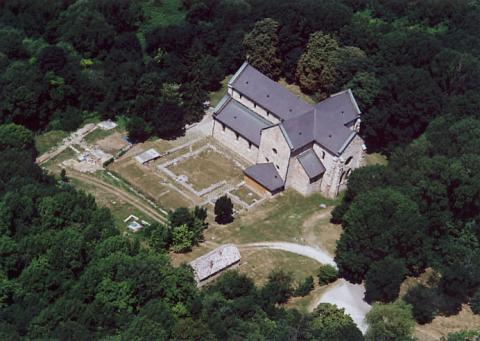 Bélapátfalva, Hungary, aerial photography